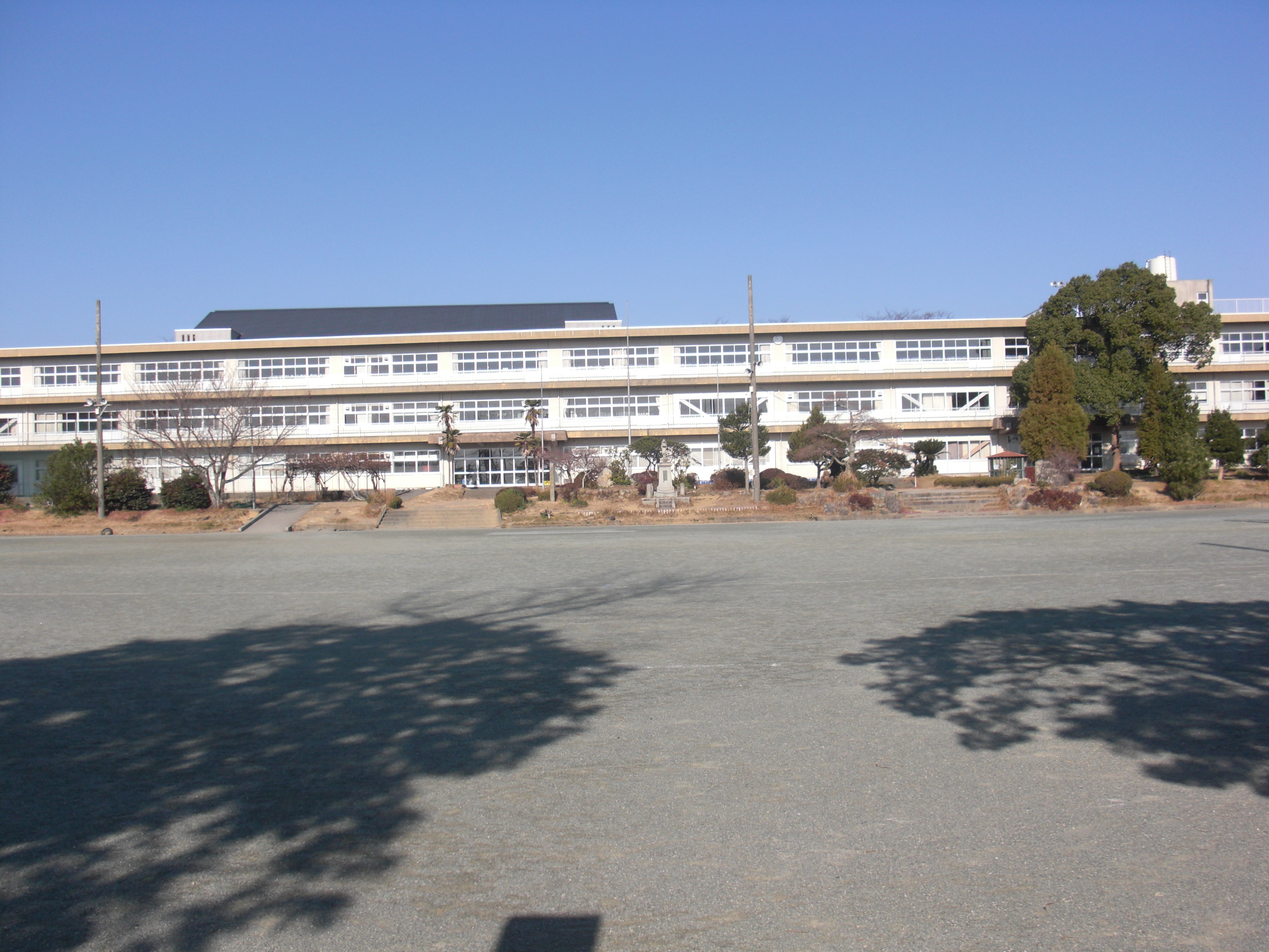 This is the Shima city Isobe elementary school's school building and ground in Shima, Mie, Japan.